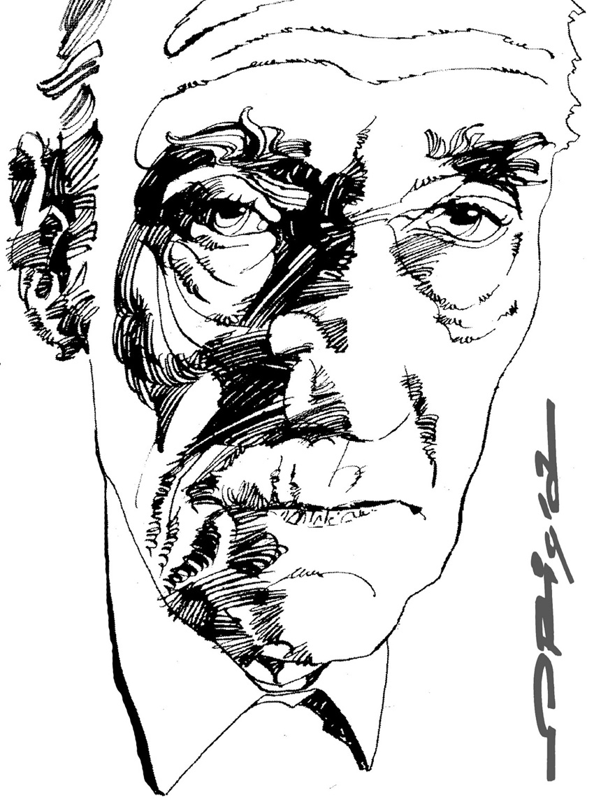 William Burroughs, portrait by italian artist Graziano Origa, pen&ink, 1997